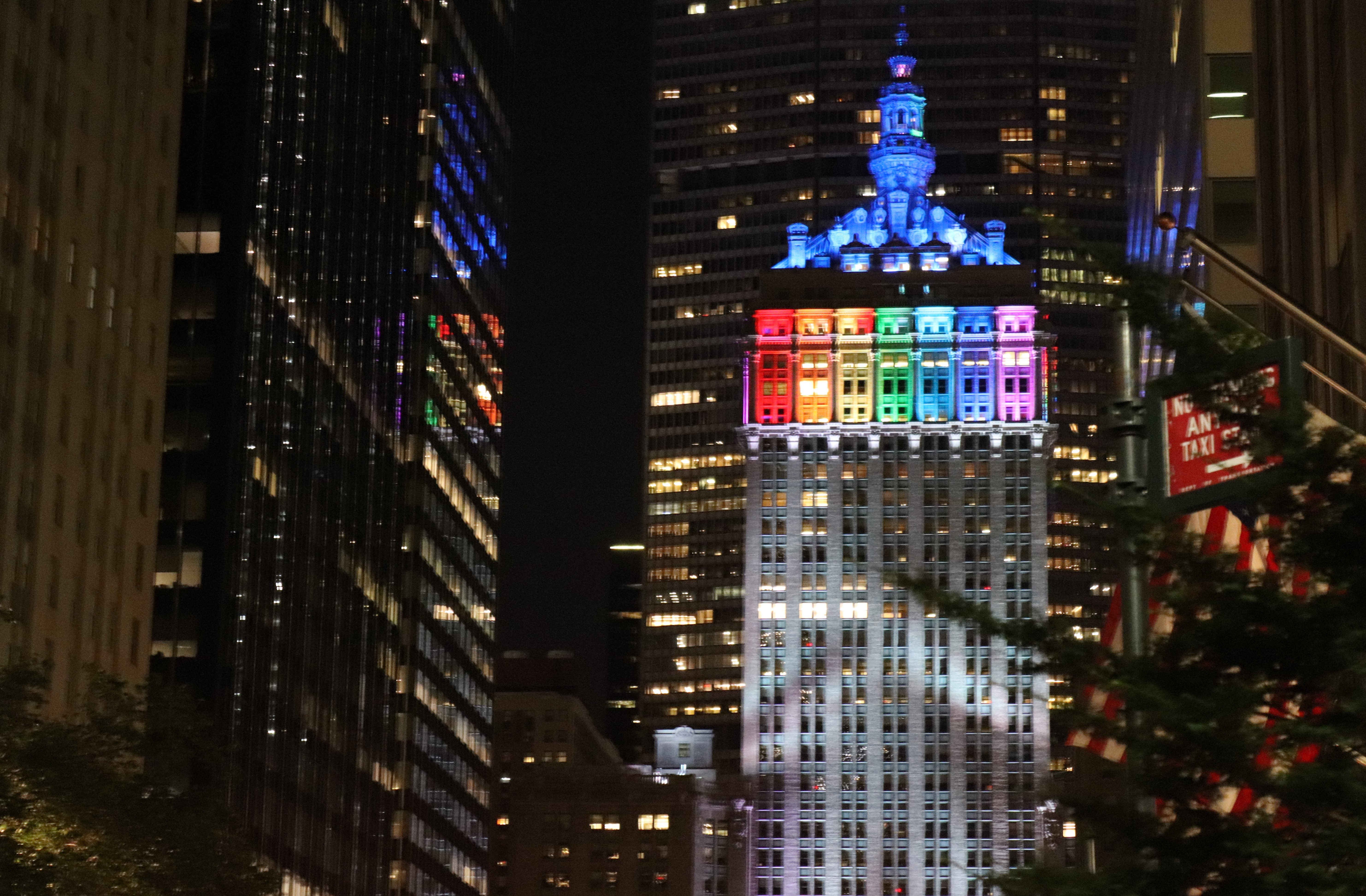 View of RAINBOW COLORS light display at MET LIFE BUILDING from East 51st Street and Park Avenue in New York City, NY on Friday night, 28 June 2019 by Elvert Barnes Photography Learn more at secretnyc.co/empire-state-building-lit-up-pride-flag-colo... SIGNS OF GAY PRIDE 2019 Project / NYC Series Return to POD 51 Hotel Walk from MTA East 50th Street Station After 49th NYC LGBTQ World Pride Rally 49th NYC LGBTQ WORLD PRIDE 2019 docu-project at